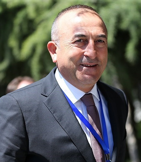 Mevlüt Çavuşoğlu, Foreign Minister of Turkey in Saadabad Palace in Tehran, Iran